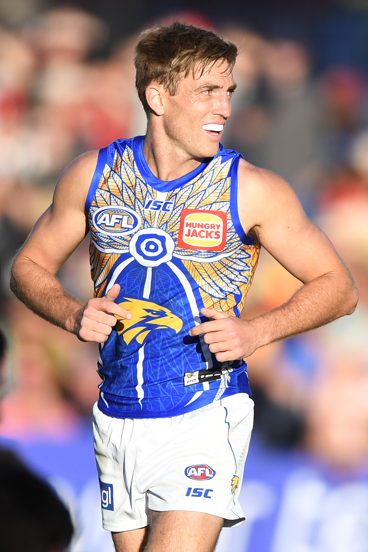 Brad Sheppard of West Coast during the 2019 AFL round 18 match between Melbourne and West Coast at Traeger Park on Sunday, 21 July 2019 in Alice Springs, Northern Territory.